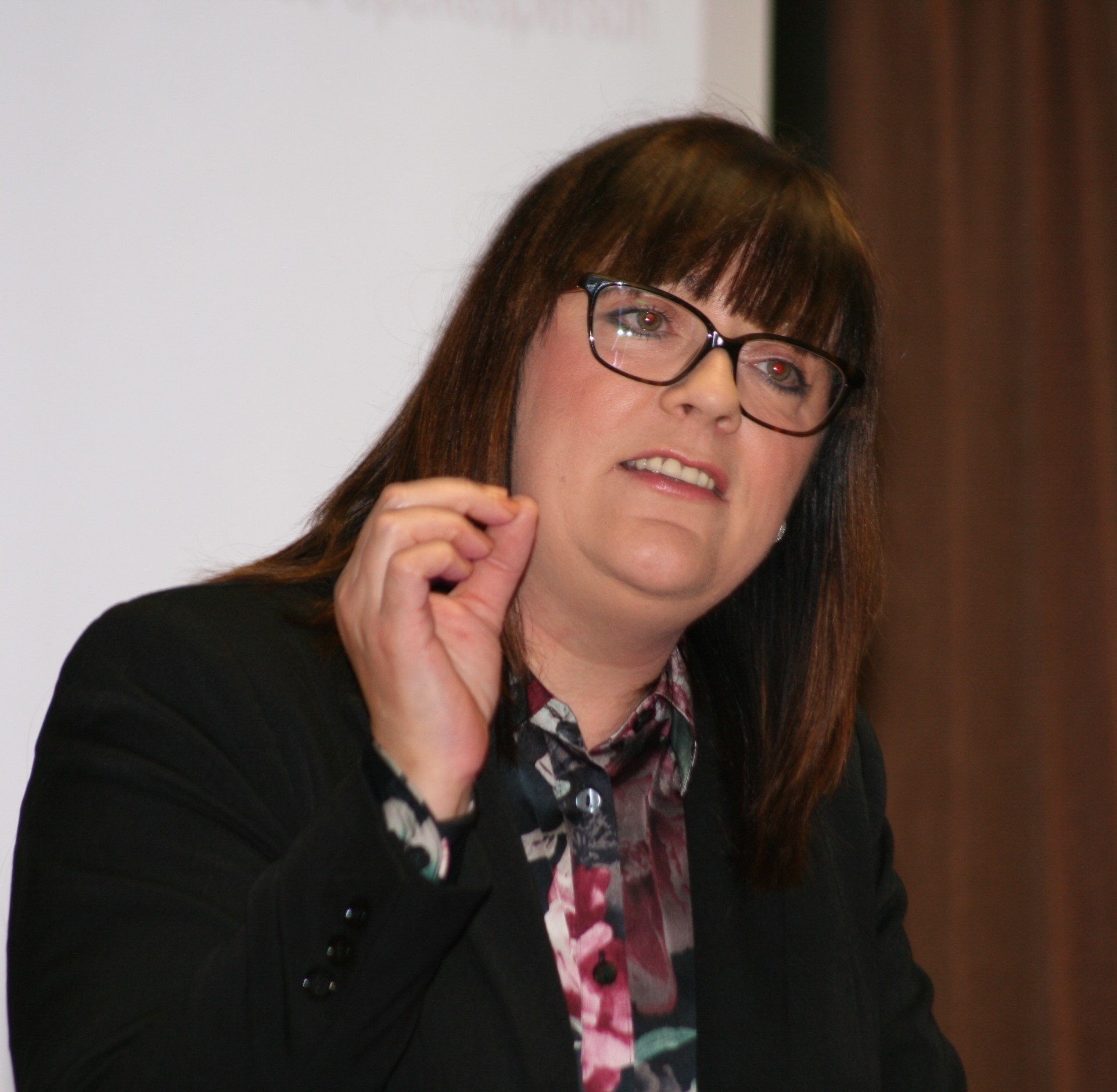 Louise Bours MEP